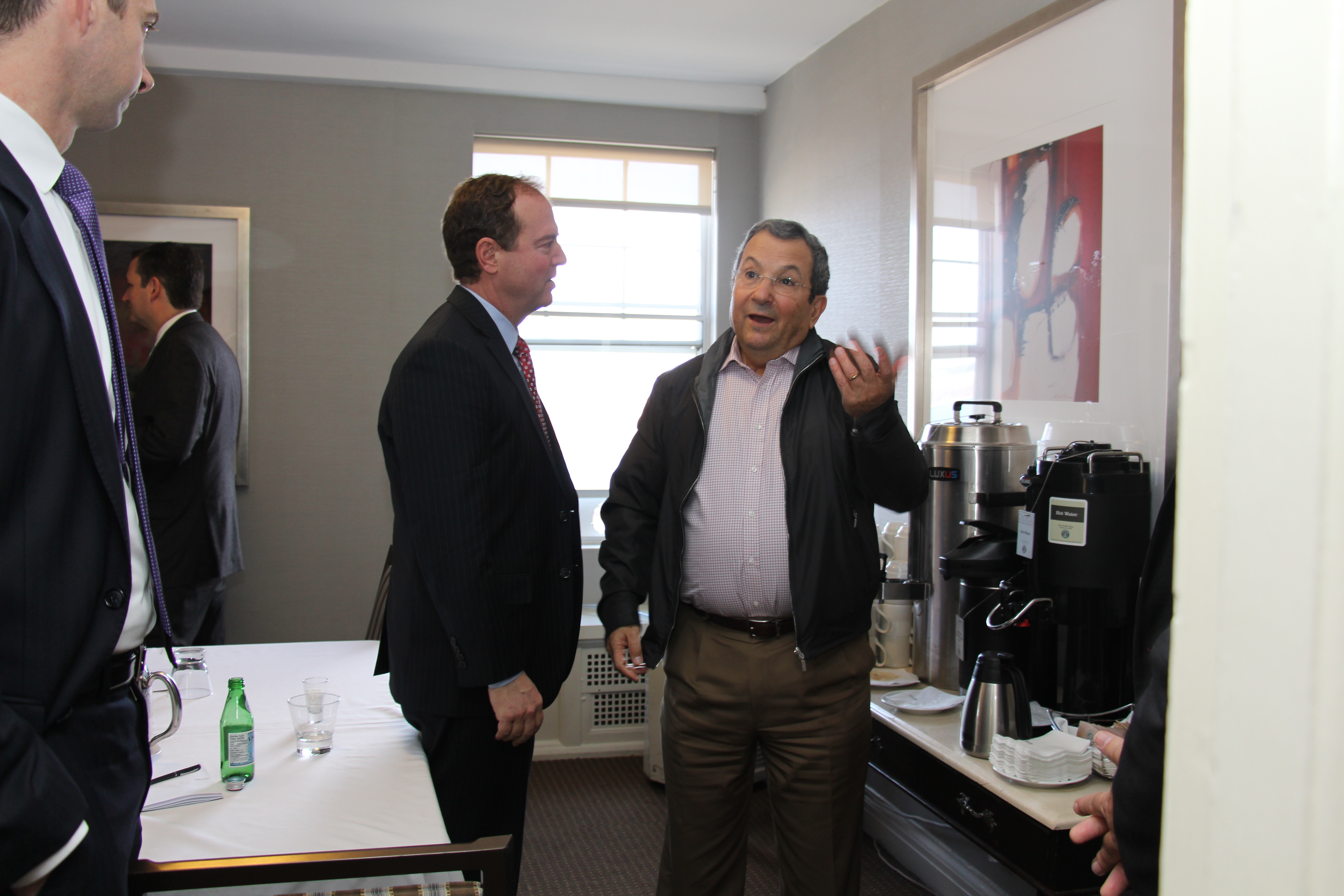 Rep. Adam Schiff with Ehud Barak at HISF2014